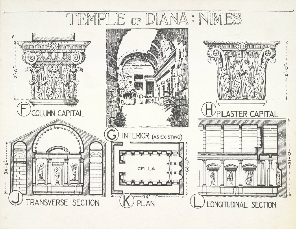 Plans of the Temple of Diana (Nimes, Occitània)